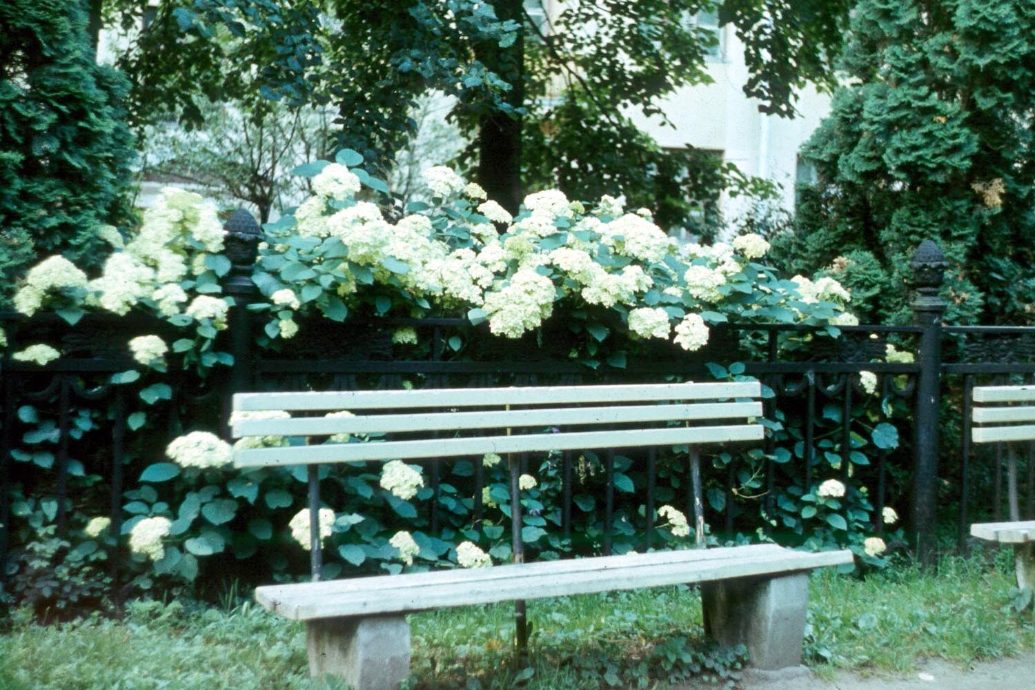 Жители и гости сада отдыхали на скамейках на лужайке по вечерам и читали газеты.